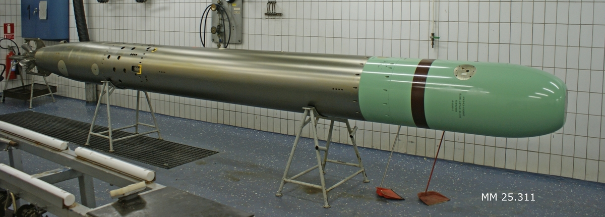 A 53 cm wire-guided torpedo of the Swedish Navy, type "Torped 613". CC BY-SA to "Marinmuseum".